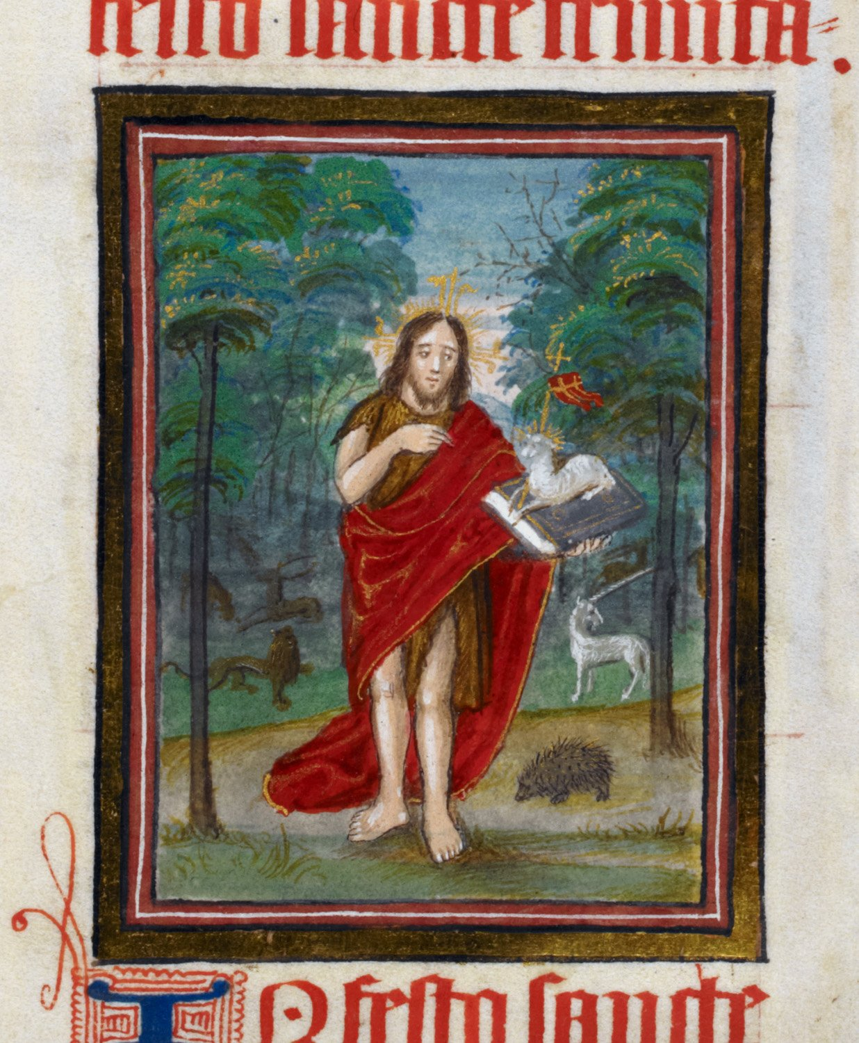 Miniature from the Jenyns Lectionary in the British Library (Royal Collection MS 2 B XIII) depicting St John the Baptist in the Wilderness, c. 1508. Given by Sir Stephen and Dame Margaret Jenyns to St Mary Aldermanbury church, London.